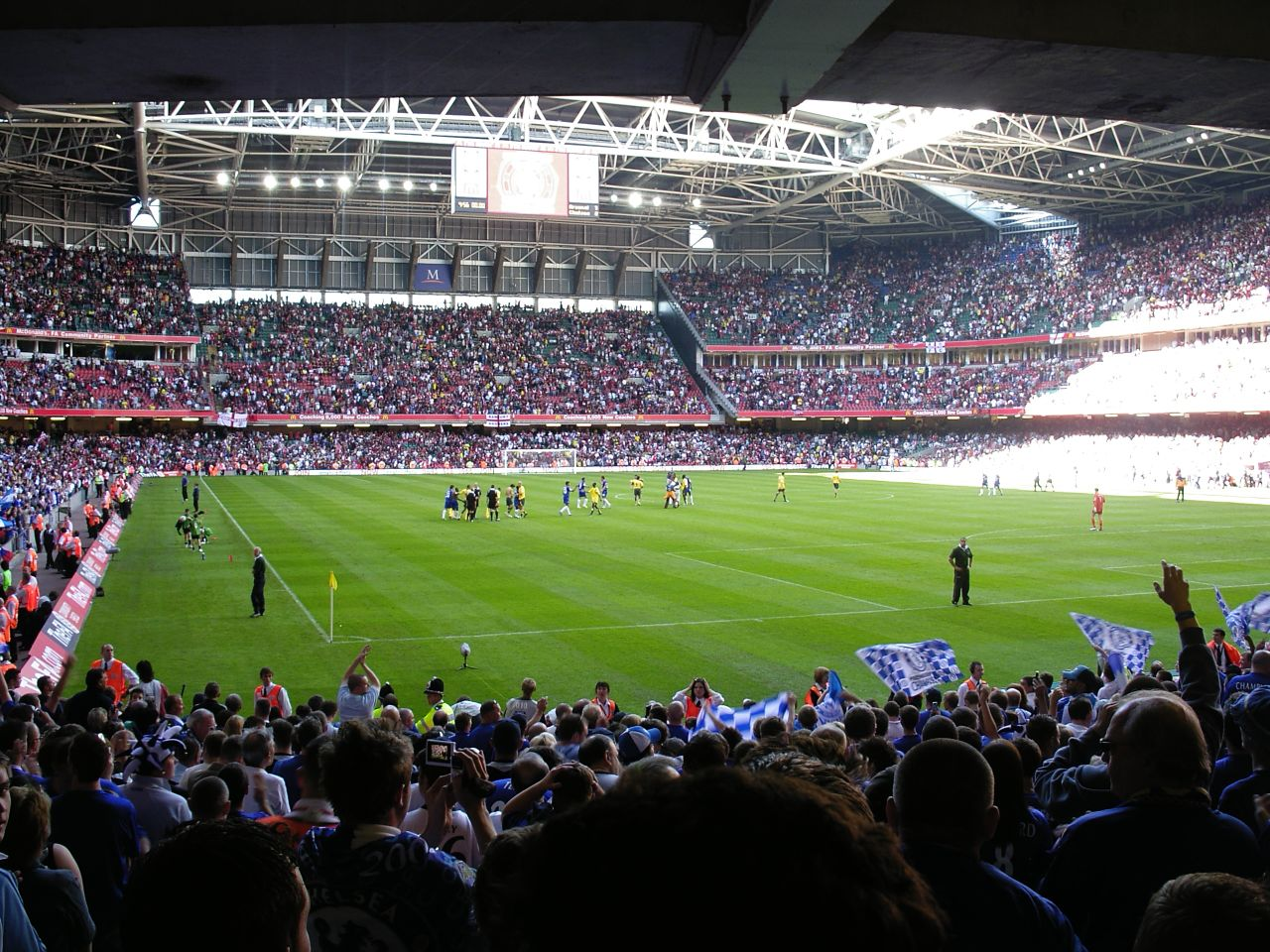 Goalmouth action of the 2005 FA Community Shield between Chelsea and Arsenal, at the Millennium Stadium.